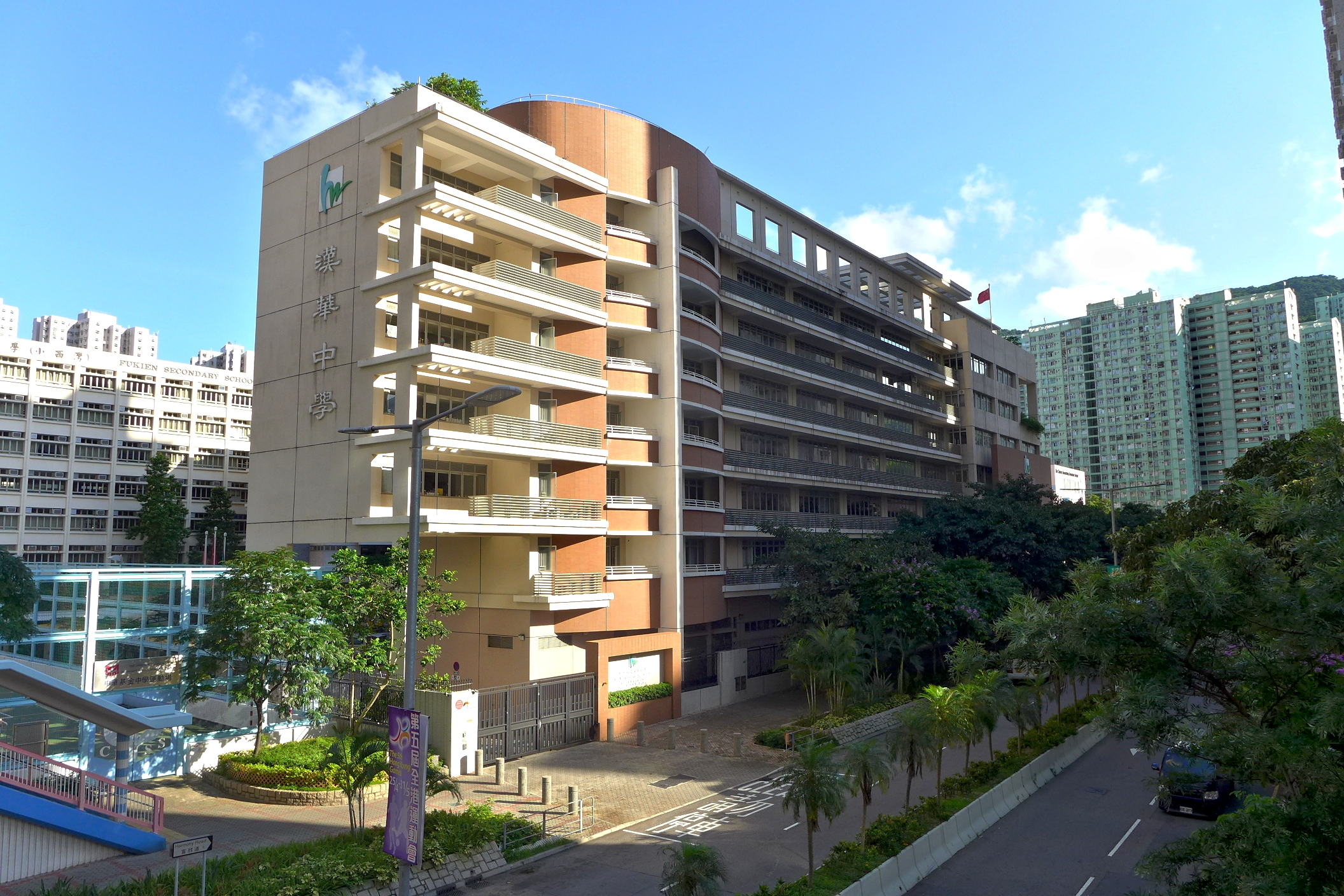 Hon Wah College